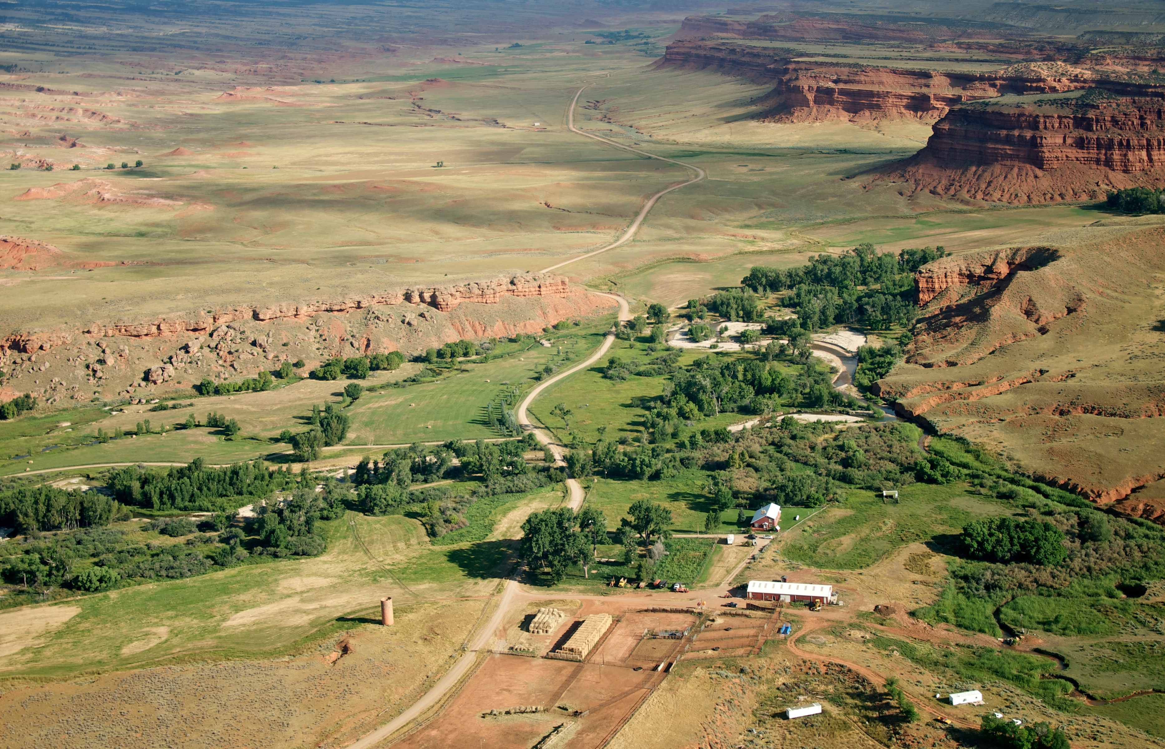 View north by west of the remote hideout called Hole-in-the-Wall located in the Big Horn Mountains of Johnson County, Wyoming, USA. The site was used in the late 19th century by the Hole in the Wall Gang and other outlaws including Butch Cassidy's Wild Bunch gang.